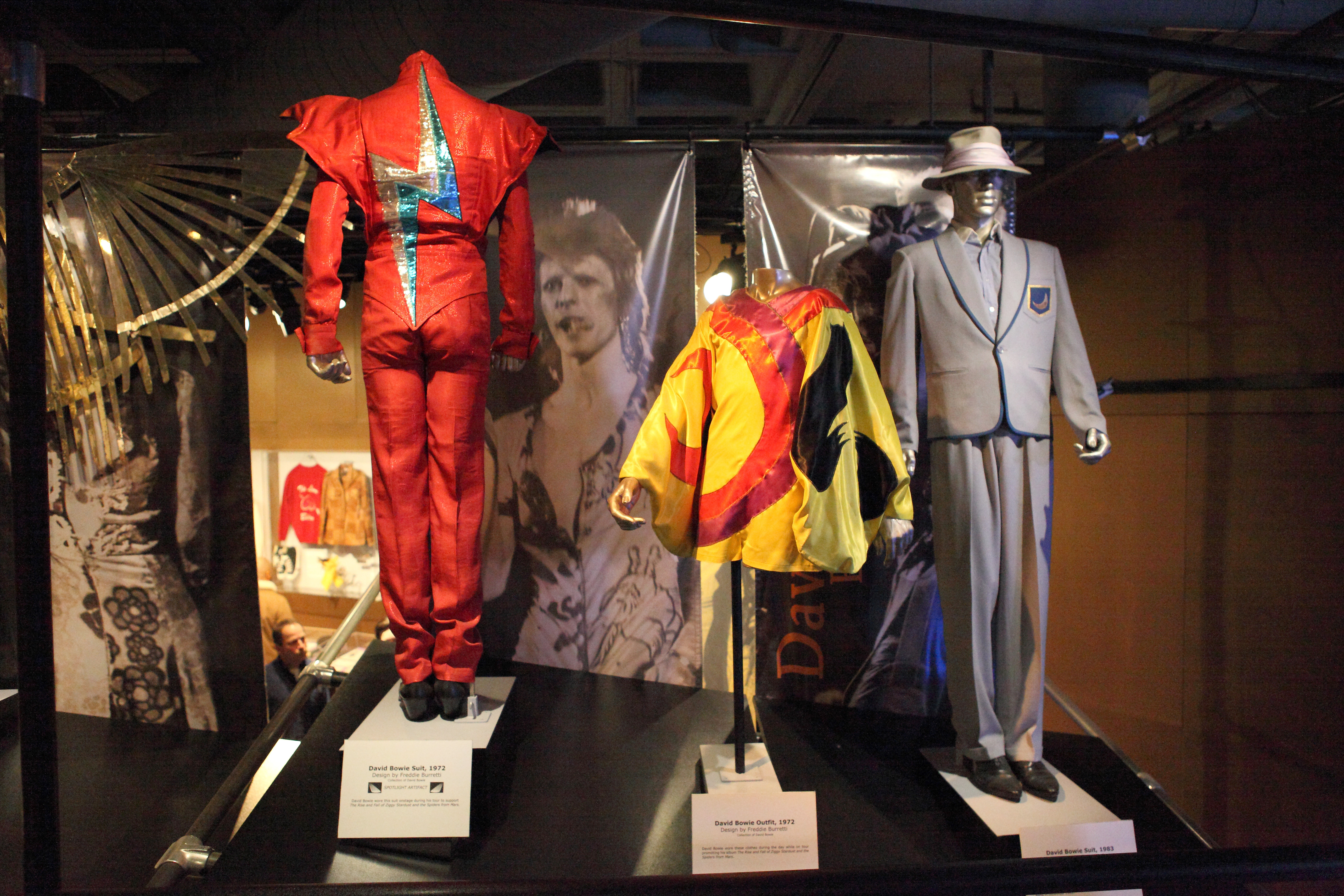 David Bowie's outfits at the Rock and Roll Hall of Fame in Cleveland, Ohio. Flickr Tags: ohio outfit clothing cleveland clothes davidbowie rockandrollhalloffame. Flickr Tags: Rock and Roll Hall of Fame Cleveland Ohio. from Flickr album "Rock and Roll Hall of Fame" by Sam Howzit